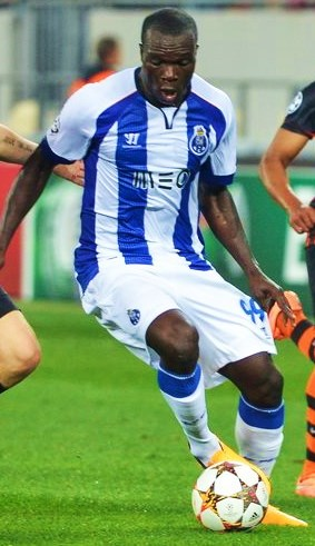 Vincent Aboubakar